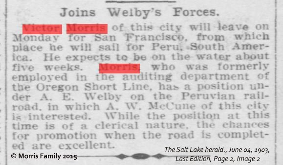 Newspaper Article - Library of Congress June 4, 1903